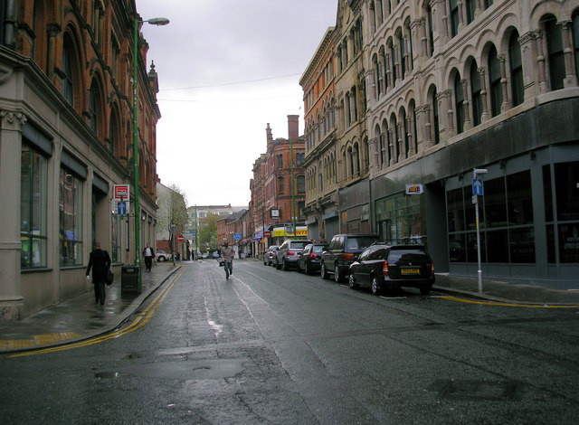 Thomas Street, Manchester Thomas Street forms a T-junction with Shudehill just behind the photographer. Salmon Street is on the left and Soap Street on the right. On the left hand side of Thomas Street can be seen the shell of the old market buildings.